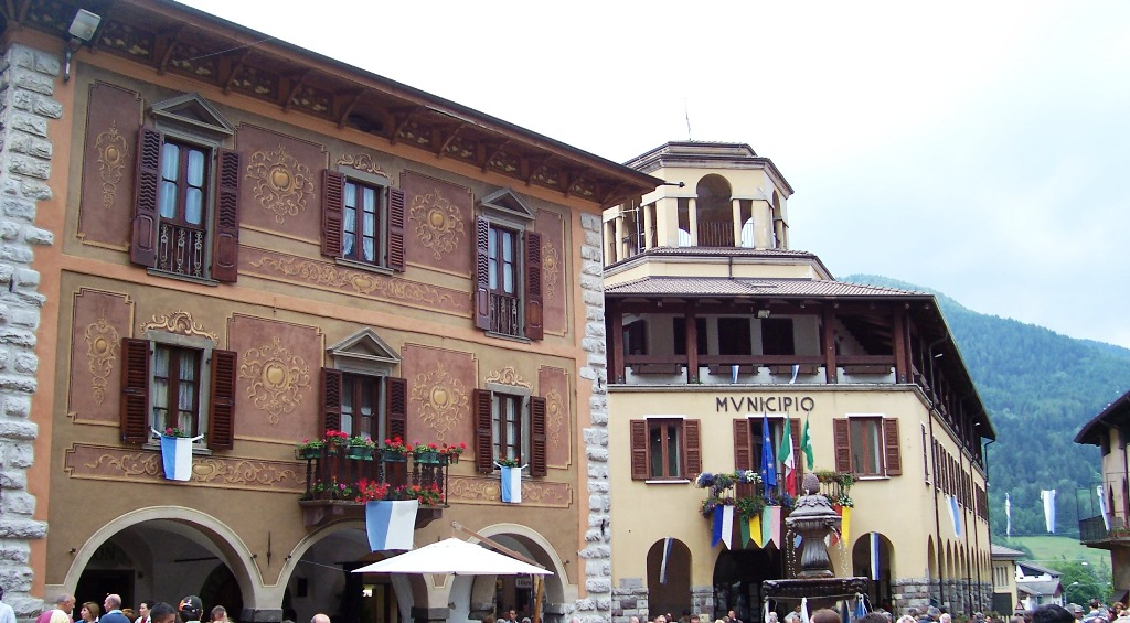 Town hall. Borno, Val Camonica